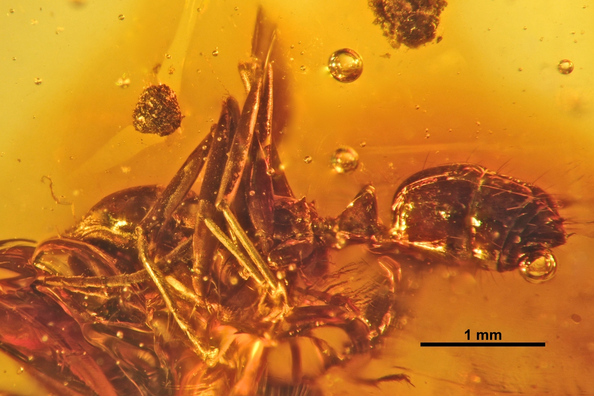 Profile view of the Anochetus lucidus holotype. Specimen " SMNSDO2846-1"